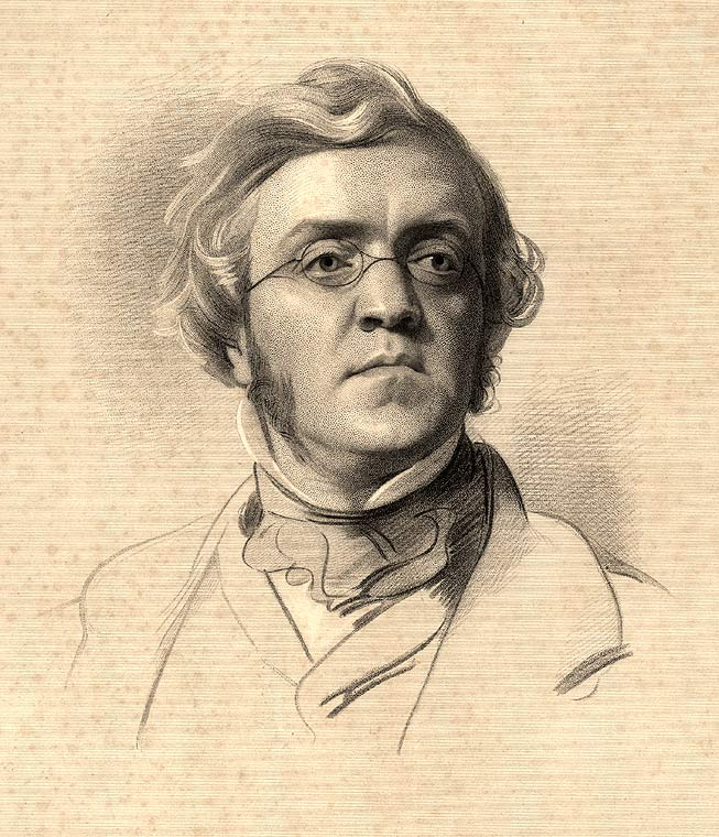 F. Holl, after Samuel Lawrence: William Makepeace Thackeray. Steel engraving, published by Smith, Elder & Co., 1853. Image size: 13 3/4 x 11 7/16 inches.